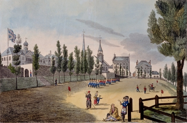 View of the Champ de Mars, Montreal